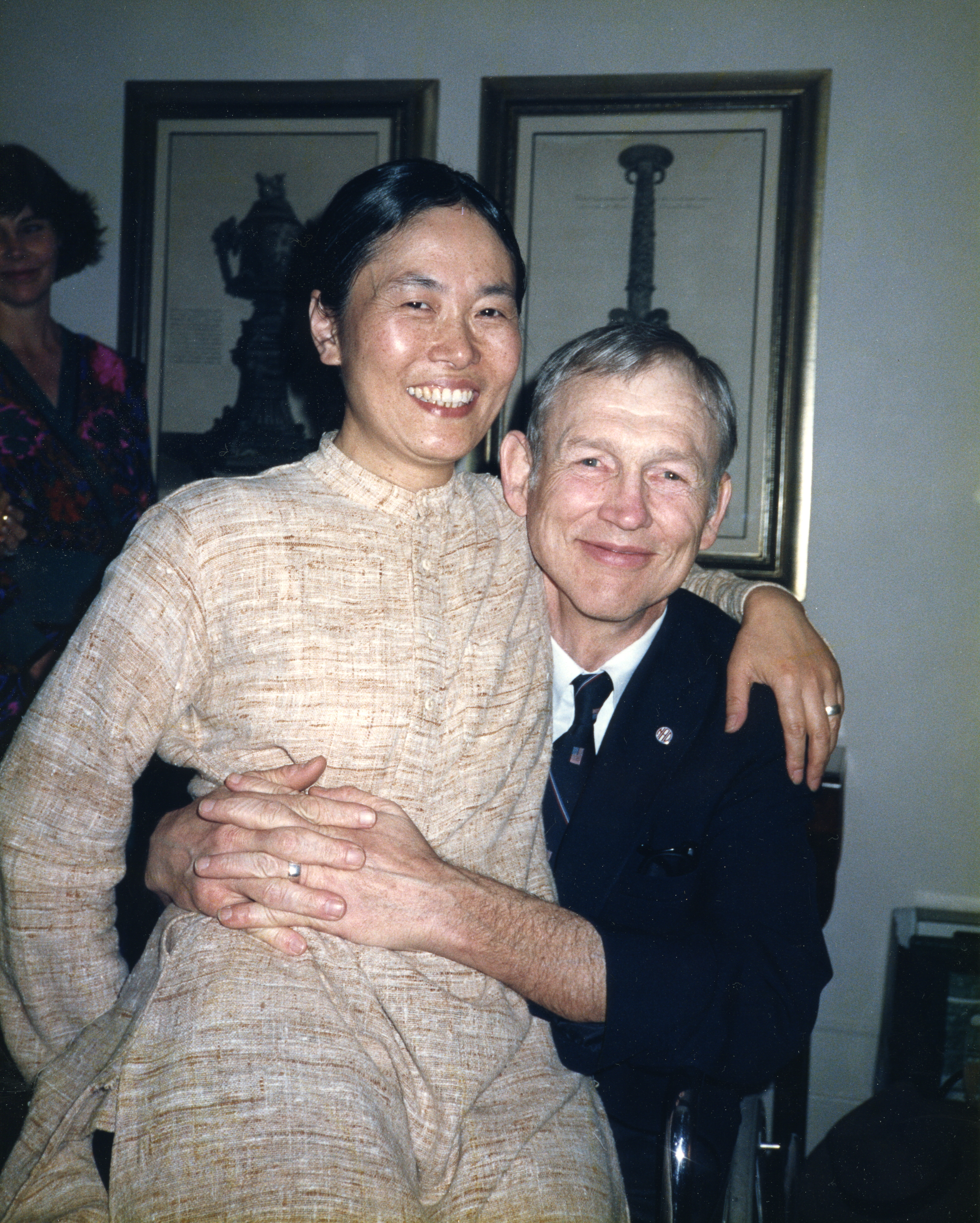 Justin and Yoshiko Dart, at the Jefferson Hotel in Washington, D.C., 1987.